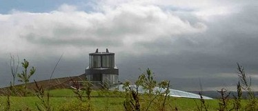 A futuristic building on the site of Swinhay Farm A futuristic cross between a space laboratory and an airport terminal, this is the dream home of one of Britain's leading industrialists. Sir David McMurtry, who was knighted in 2001 for design and innovation, has spent £30million on Swinhay House, shaping the building and gardens to his own vision of sustainability. The site, in the village of Swinhay, near Wotton-under-Edge, Gloucestershire, is an astonishing mix of angular, high-tech insulated metal roofing.